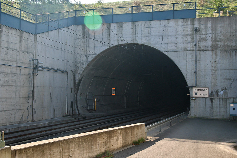 North entrance to the Ittenbach Tunnel